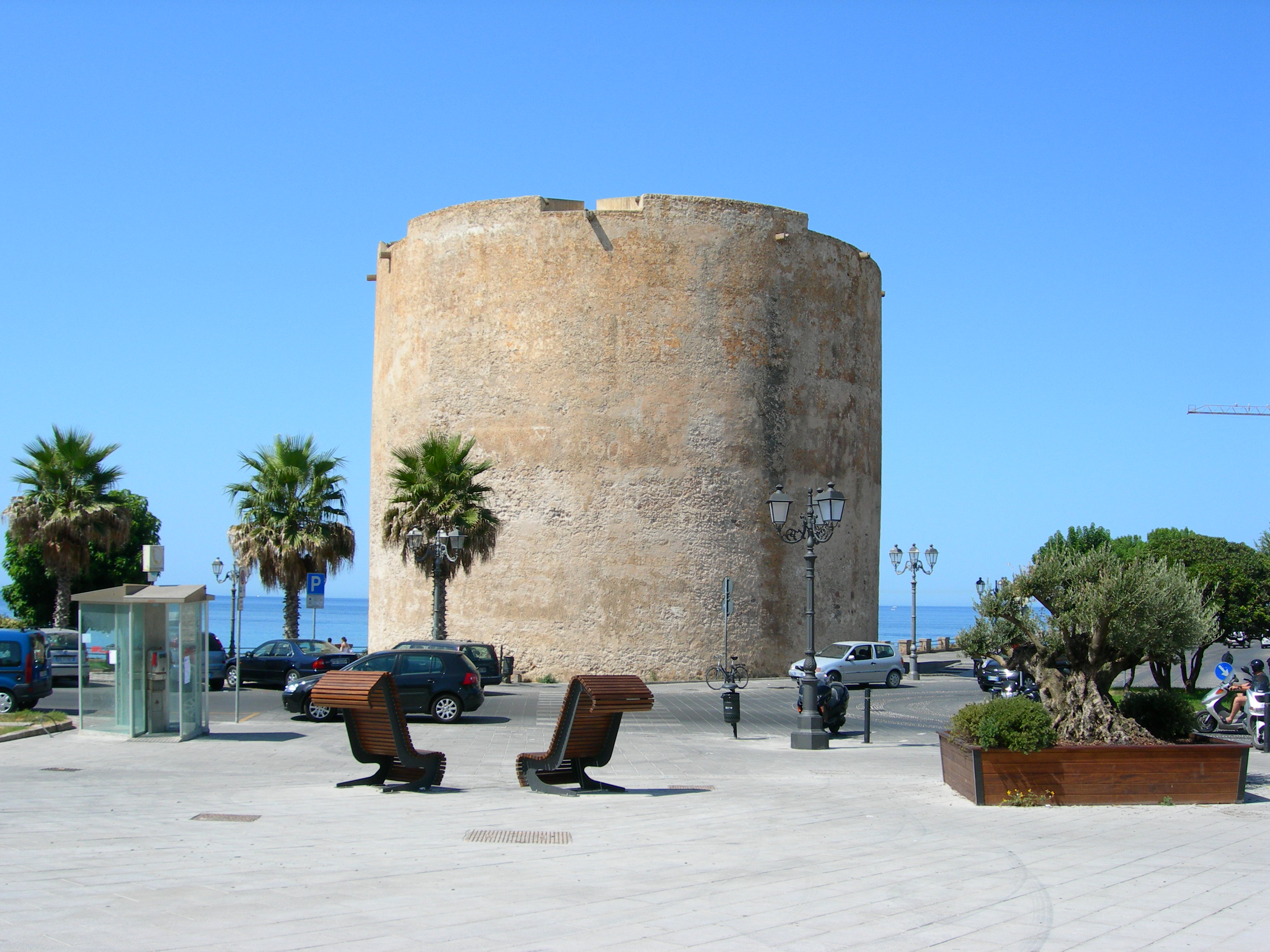 Piazza Sulis in Alghero (Sardinia), Italy.